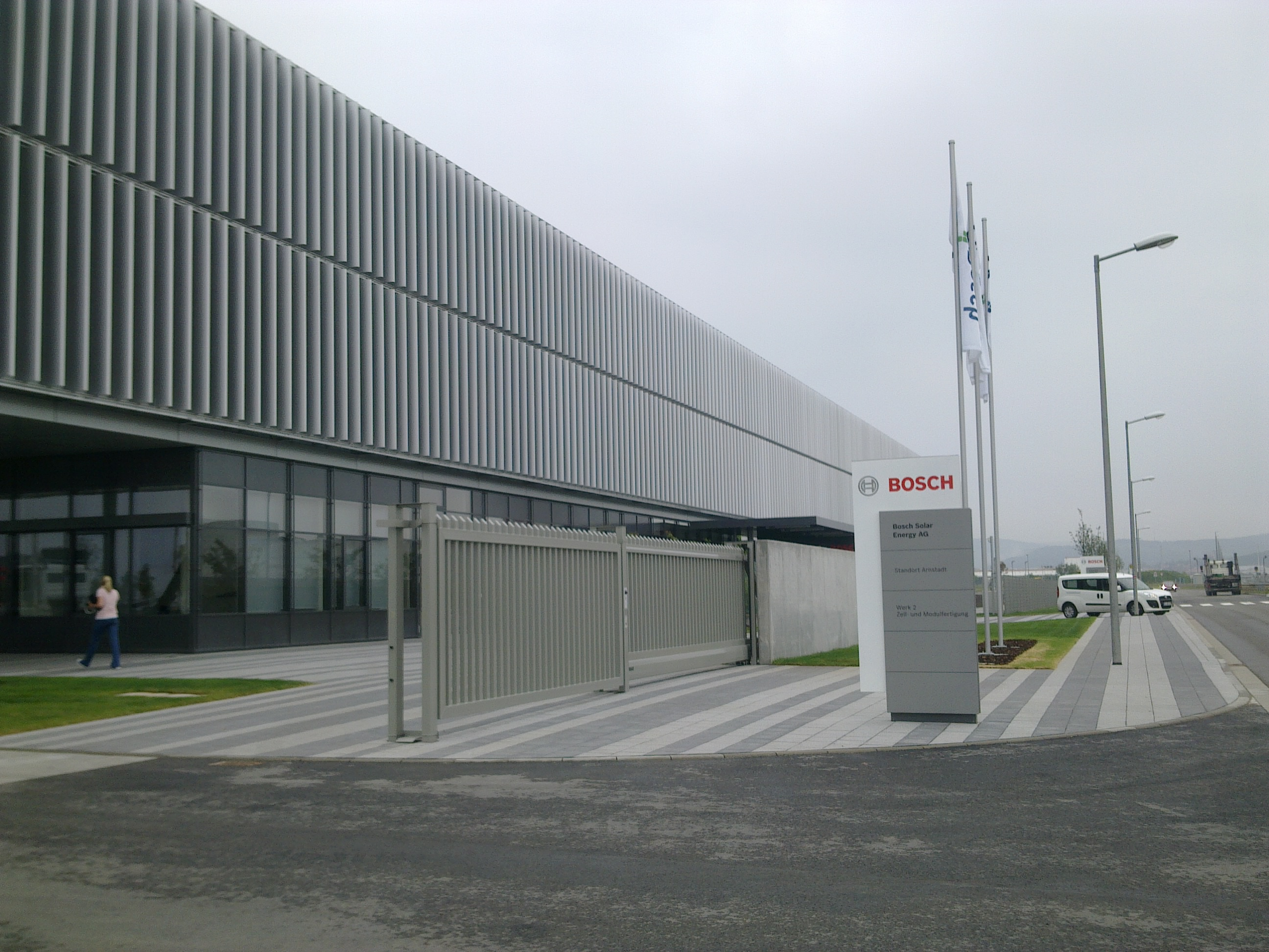 The picture shows the administrative building "Arn202" of Bosch Solar Energy in Arnstadt.